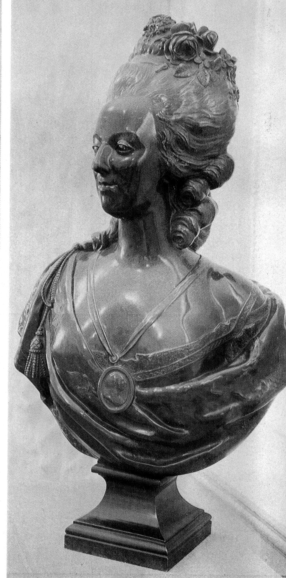 Bust of